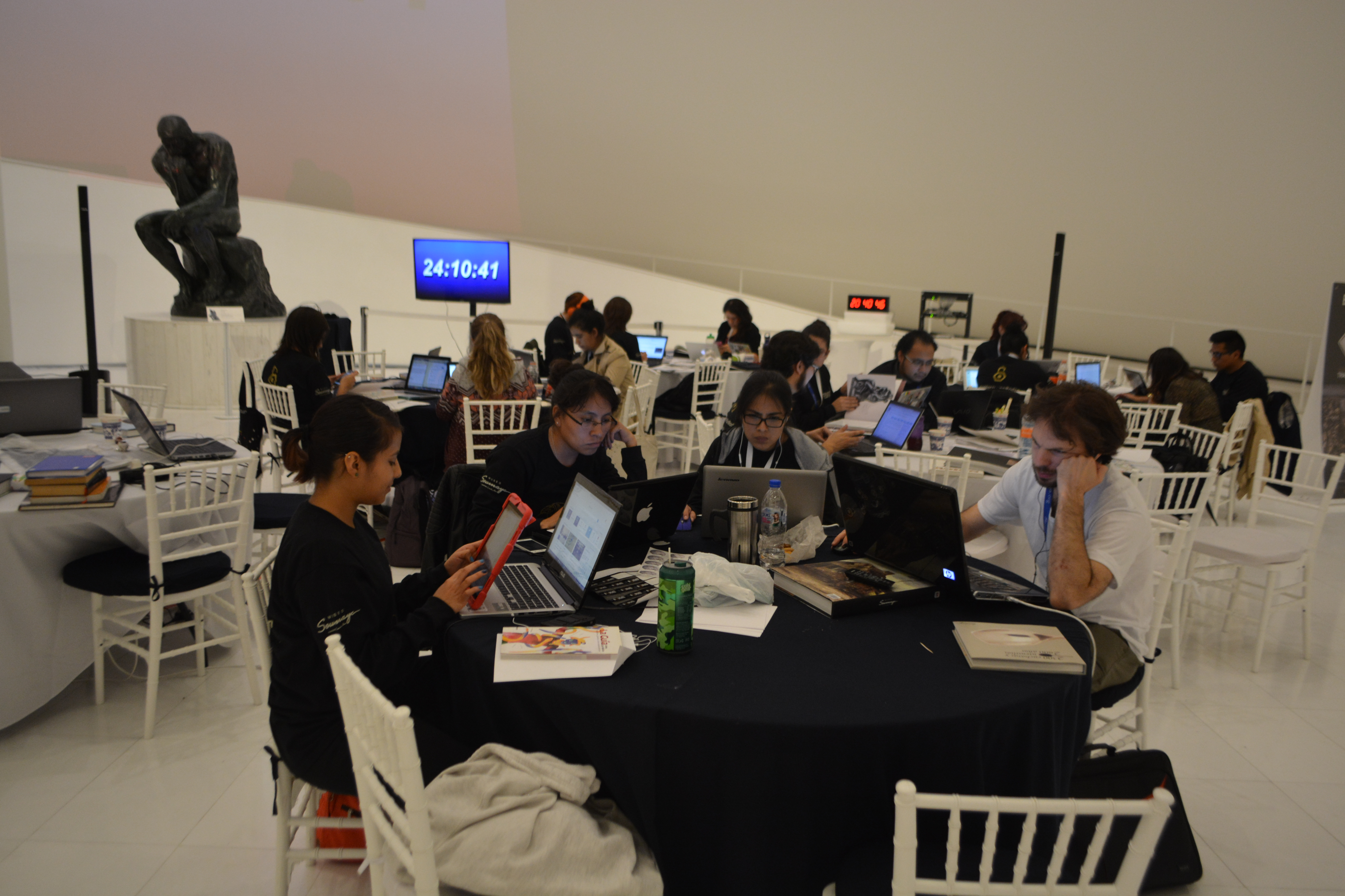 72 hours with Rodin editathon at Museo Soumaya, Mexico City.